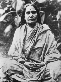 Sannyasini Gauri Ma, A Monastic Disciple of Ramakrishna